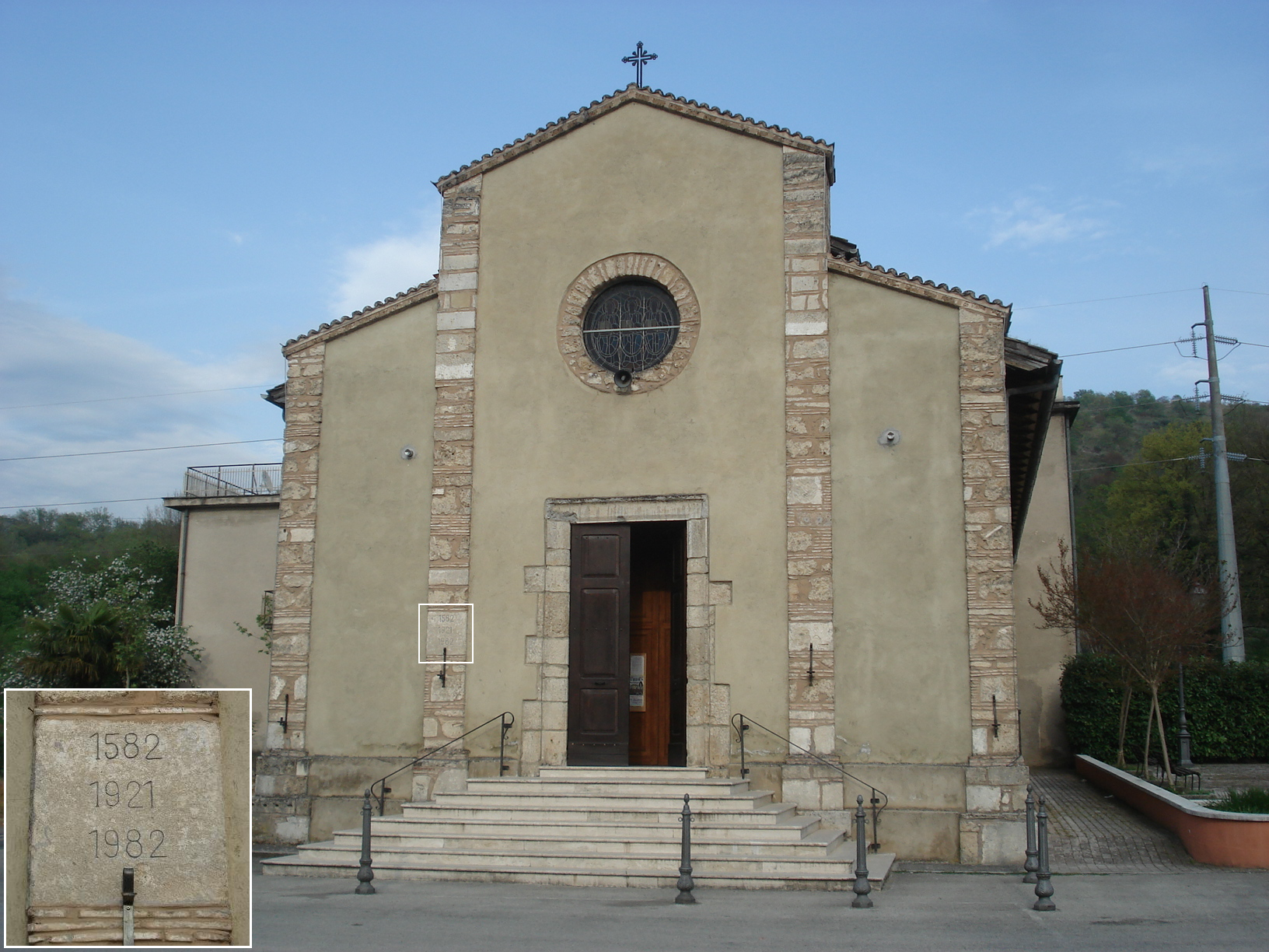 Facade of saint Eleuterio's Church in Arce, a comune (municipality) in the province of Frosinone, in the region of Lazio, Italy.